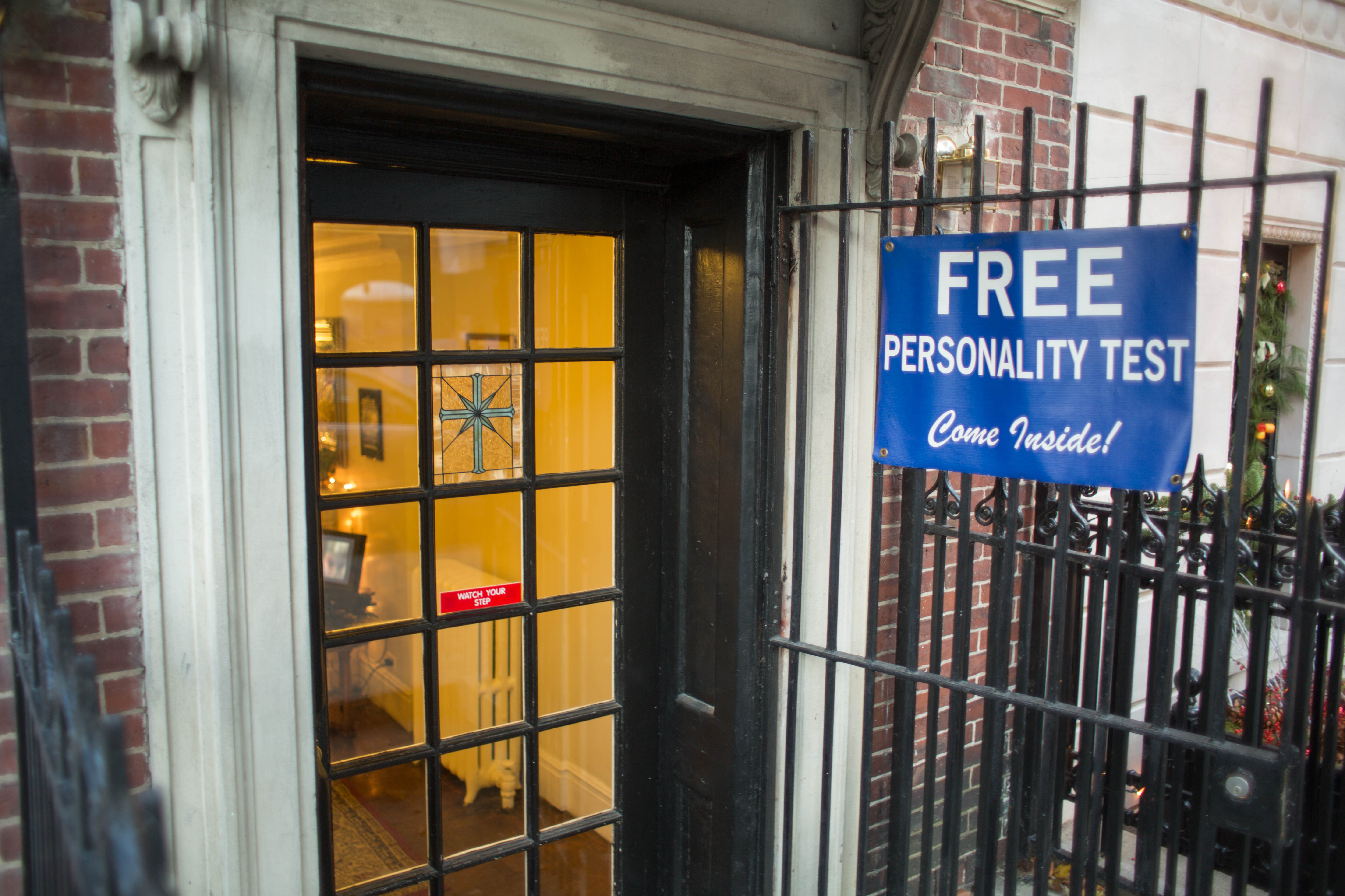 Scientology center NYC